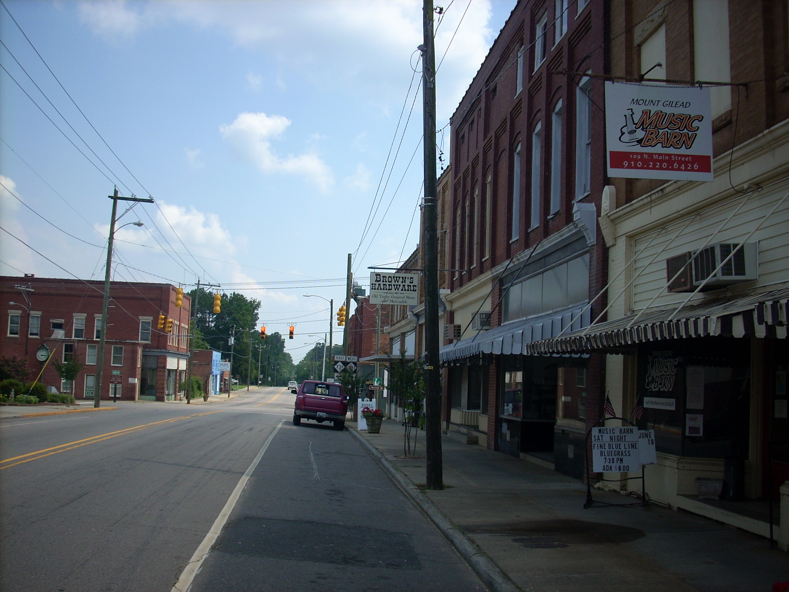 North Carolina Highway 73 in Mount Gilead, North Carolina